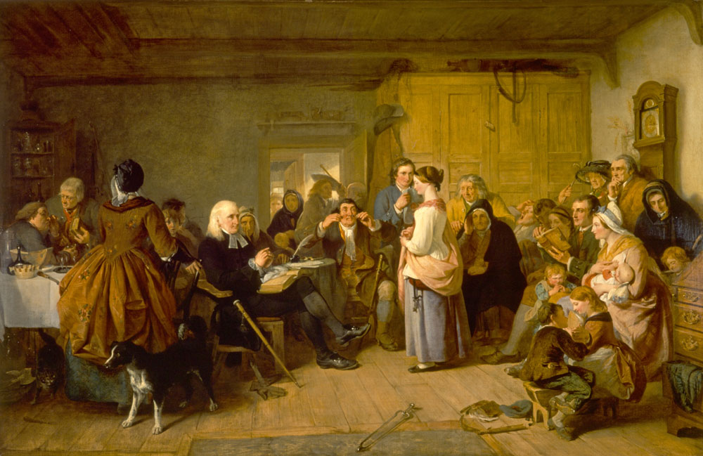 This painting shows the minister of the local kirk questioning a young parish girl about particular aspects of her Protestant faith. This practice, which was used as an instructive teaching method, was known as catechising. Stylistically, it is reminiscent of Scottish village scenes by David Wilkie, but Phillips’s treatment is more sentimental, even nostalgic; the costumes are those of the previous century. An unusual feature in the design is the presence of the hearthstone in the extreme bottom foreground that indicates that the spectator is standing somewhere in, or even beyond the fireplace. Details